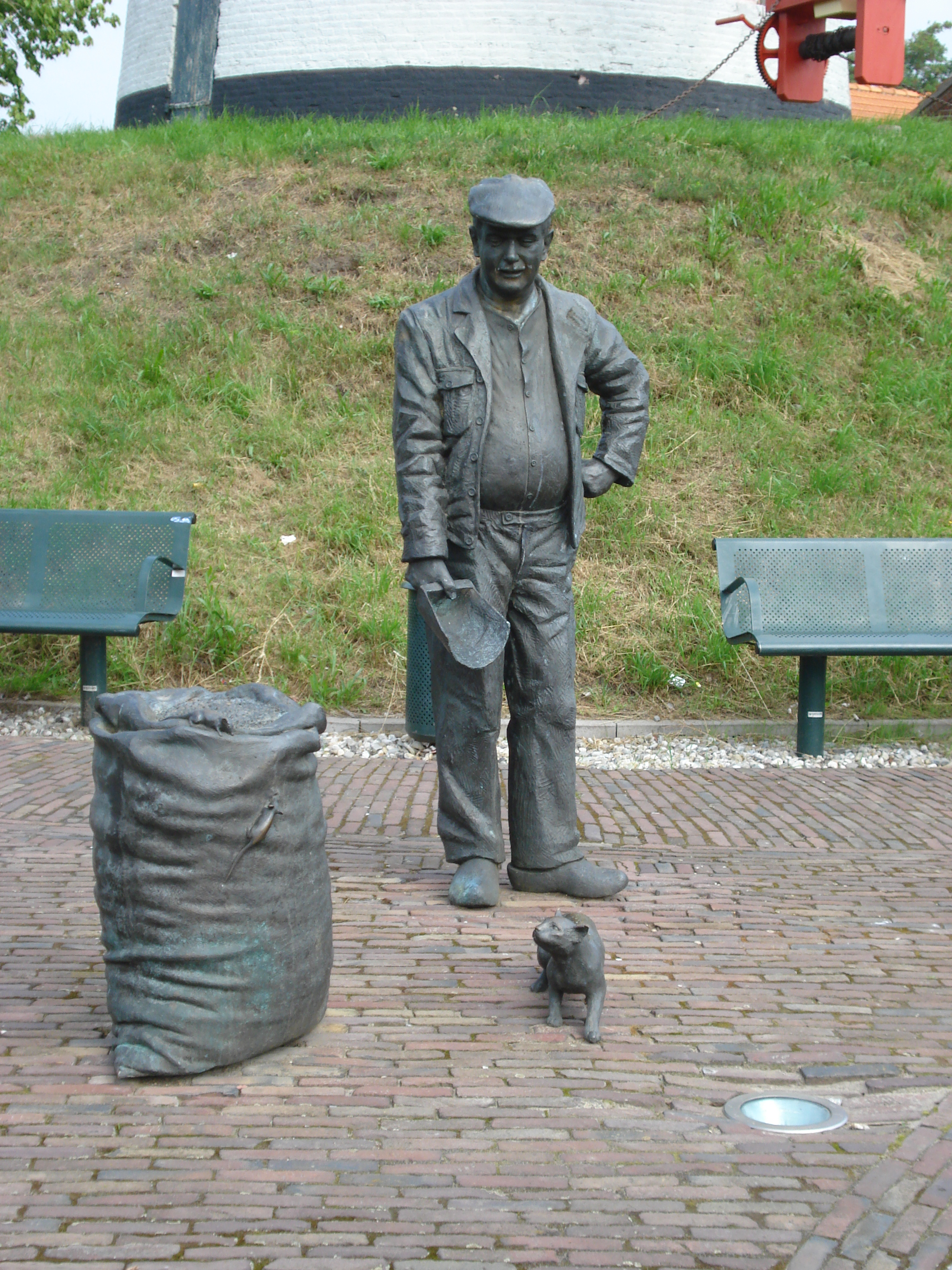 Sculpture the miller devant le moulin de Vorstenbosch, North Brabant, NL